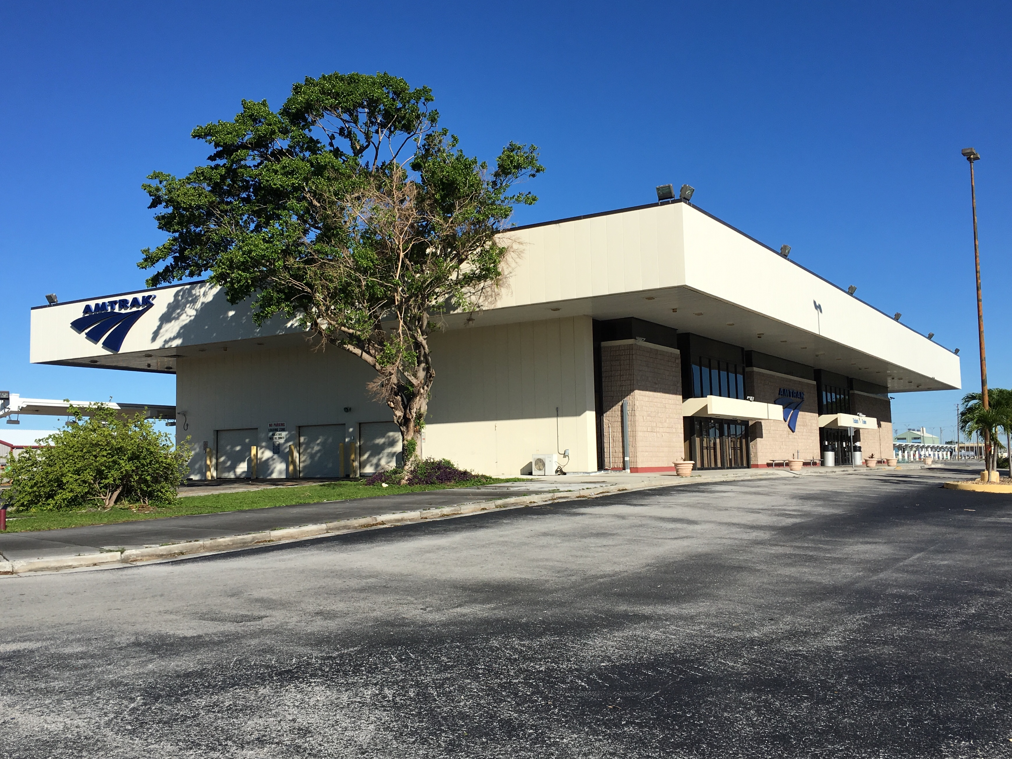 Amtrak's aging Miami station in October 2017